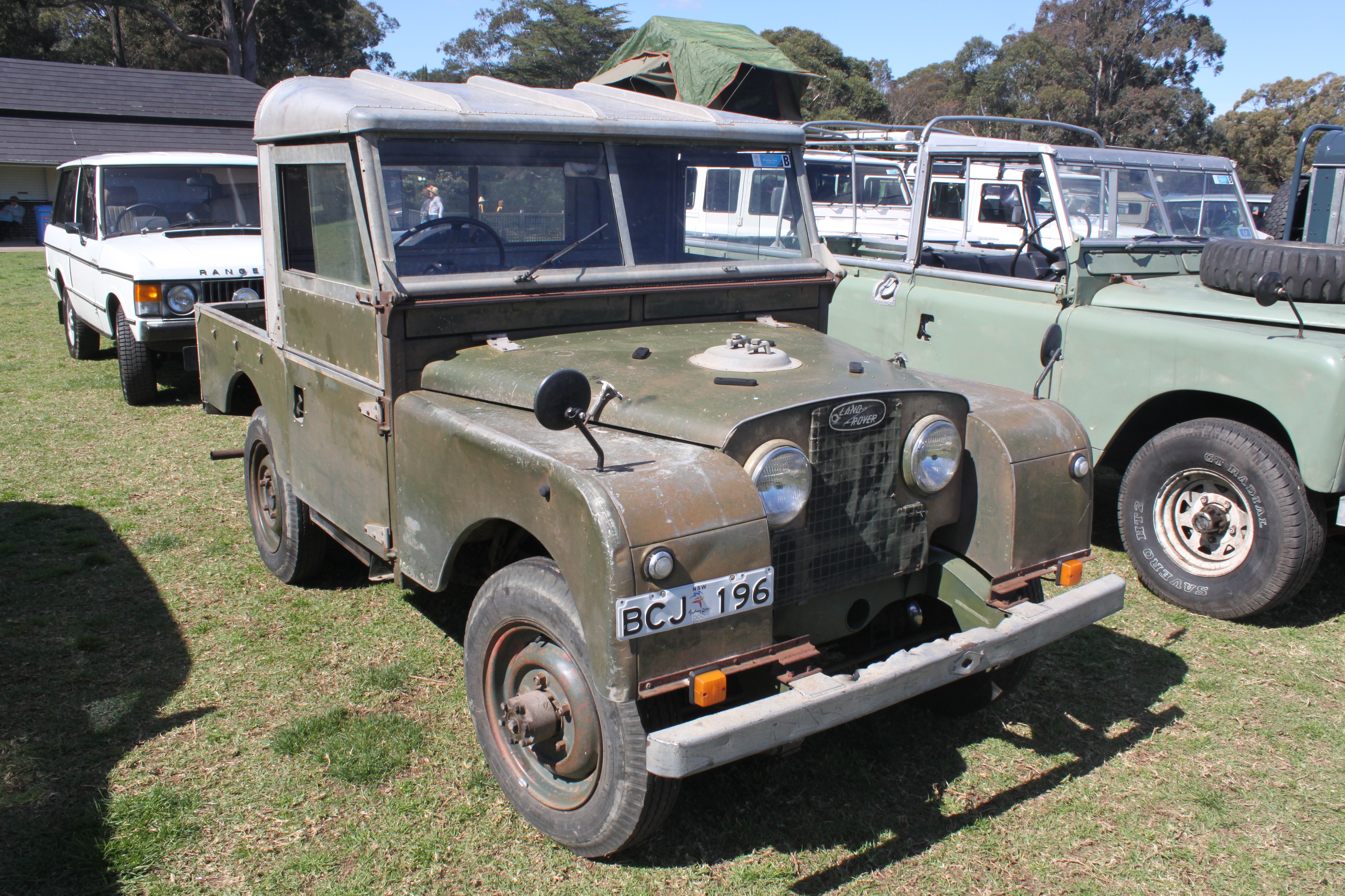 All British Day, Kings School, North Parramatta, NSW August 2015